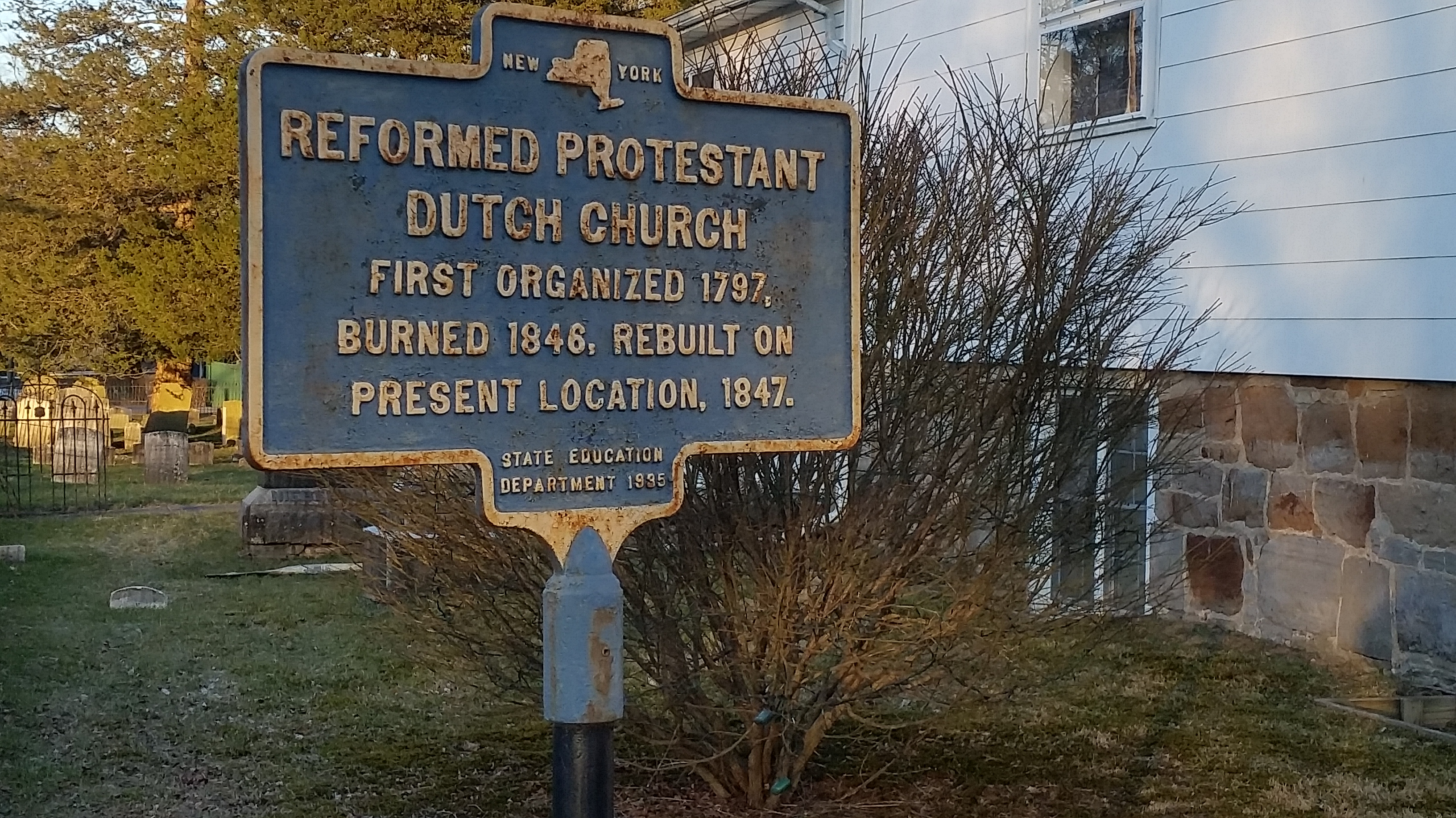 New York State historical marker (in Ulster County) for the Reformed Protestant Dutch Church in Bloomington / Rosendale NY